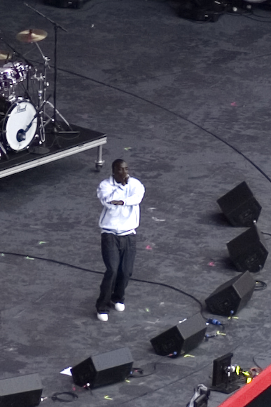 Akon performing at the Live Earth concert in New Jersey.